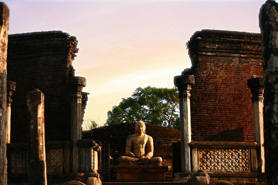 Vatadage